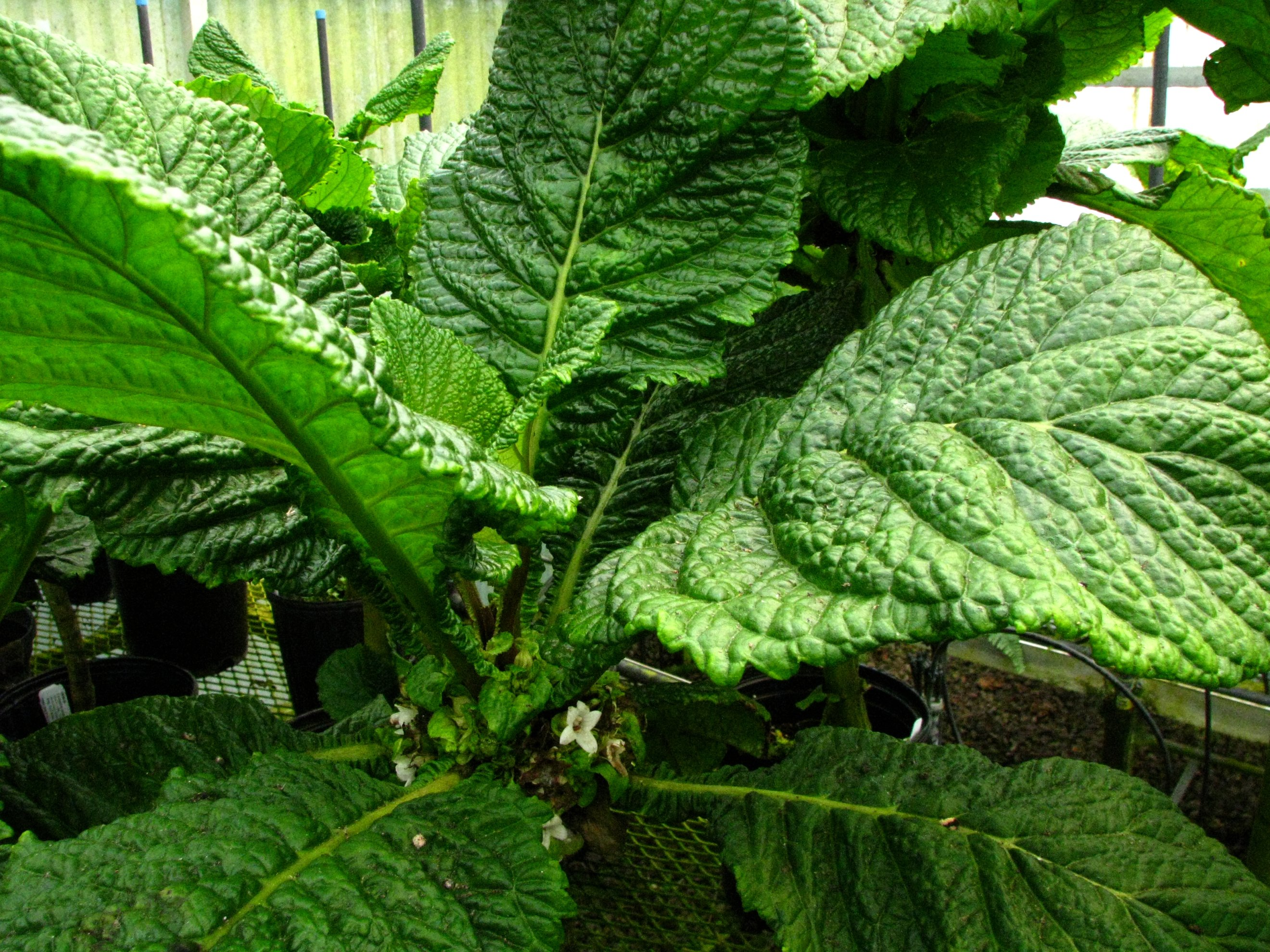 Māpele, haʻiwale, kanawao keʻokeʻo Gesneriaceae Endemic to the Hawaiian Islands (Kauaʻi only) Endangered Kauaʻi (Cultivated)